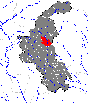 This map shows the area of the Gemeinde (municipality) Koglhof in the Bezirk (district) Weiz, Styria, Austria.